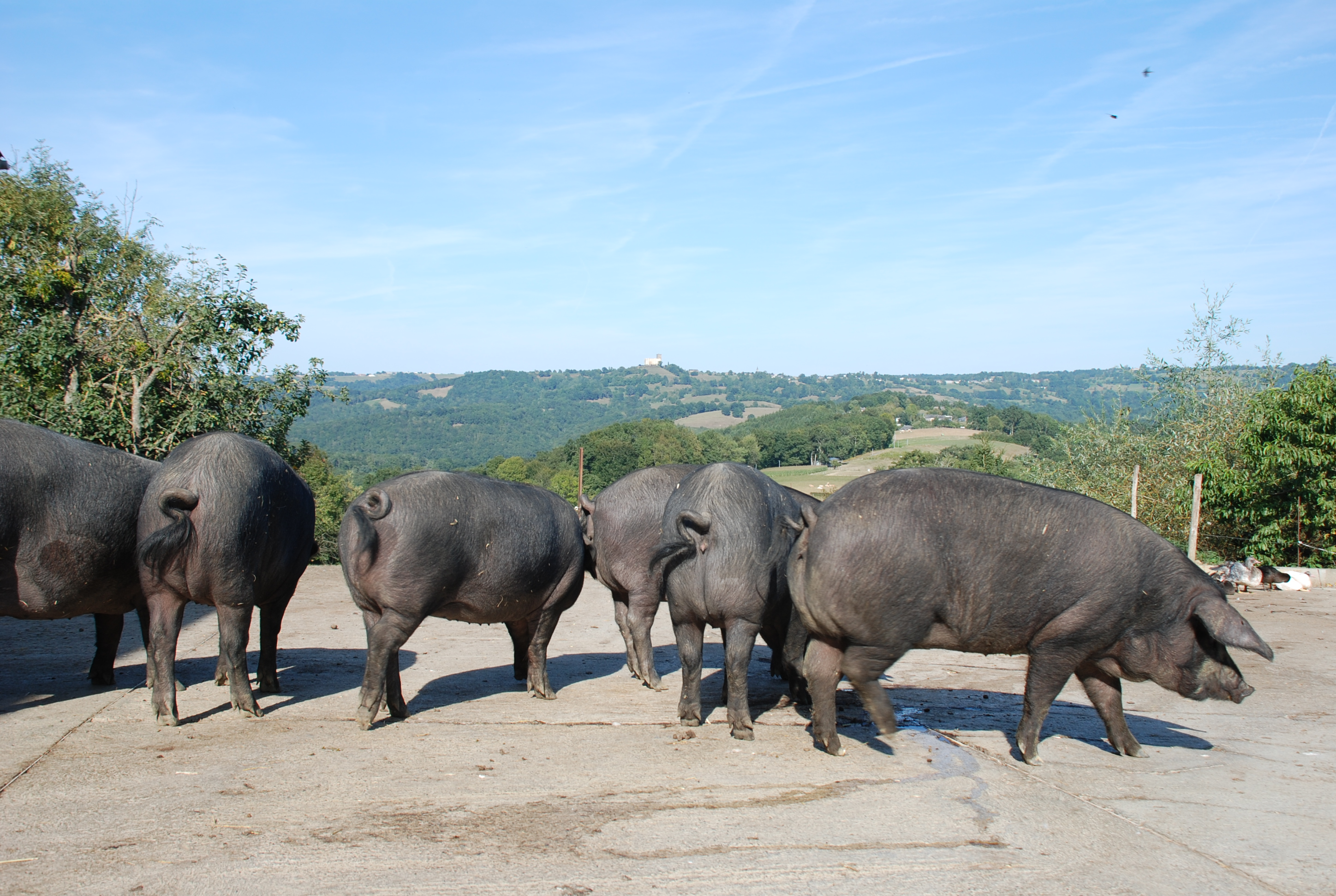 Gilts from Porc Gascon breed photographied in Arberet farm, Bonnemazon village, in Baronnies (Hautes-Pyrenees), near Escaladieu Abbey and Mauvezin Castle (seen on the photography)